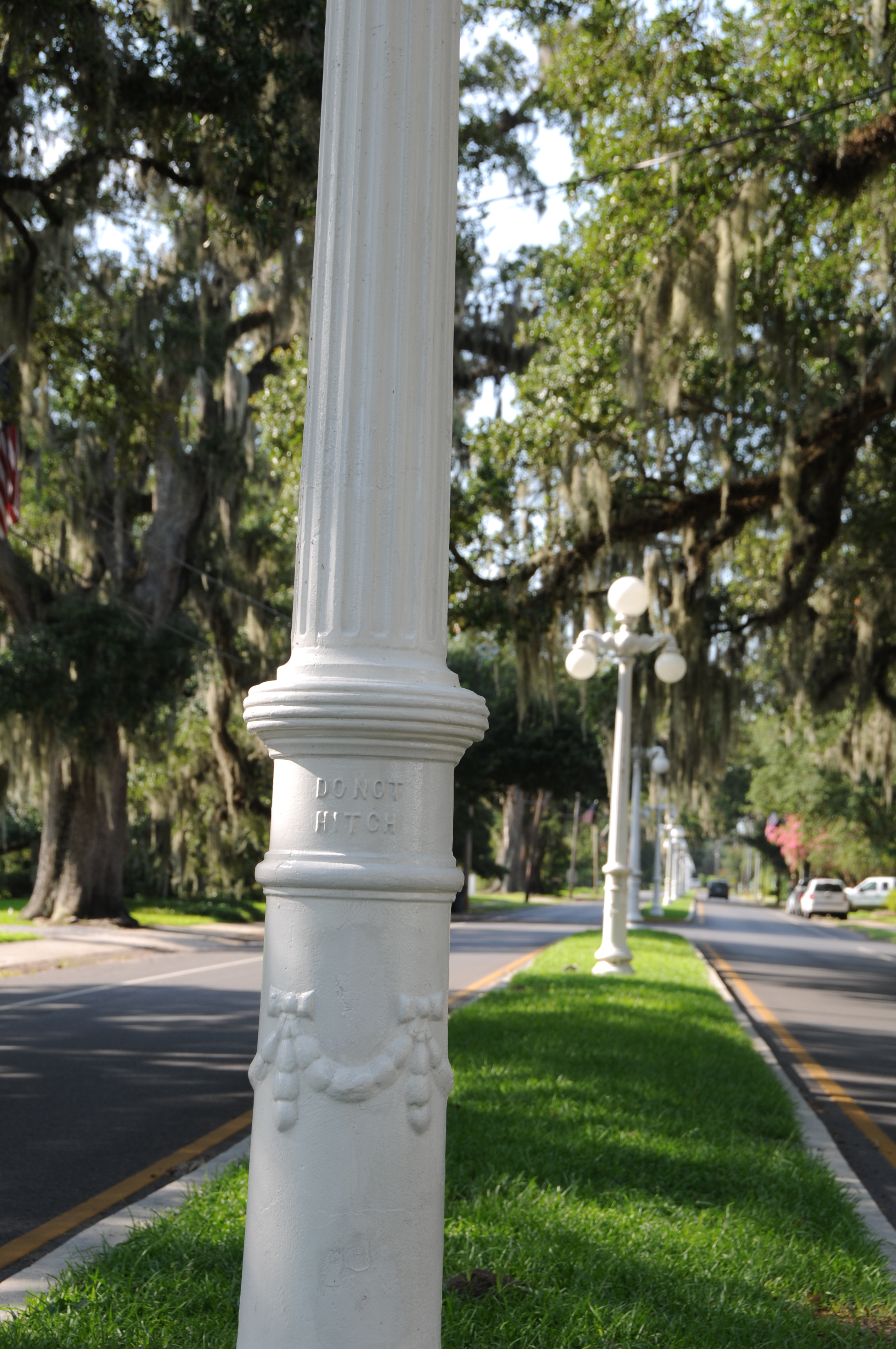 Franklin, Louisiana. Running parallel to Bayou Teche, Main Street is flanked by two rows of huge Live Oak trees which overlap the boulevard. On the neutral ground area is a row of early 20th century cast iron Renaissance style street lamps.